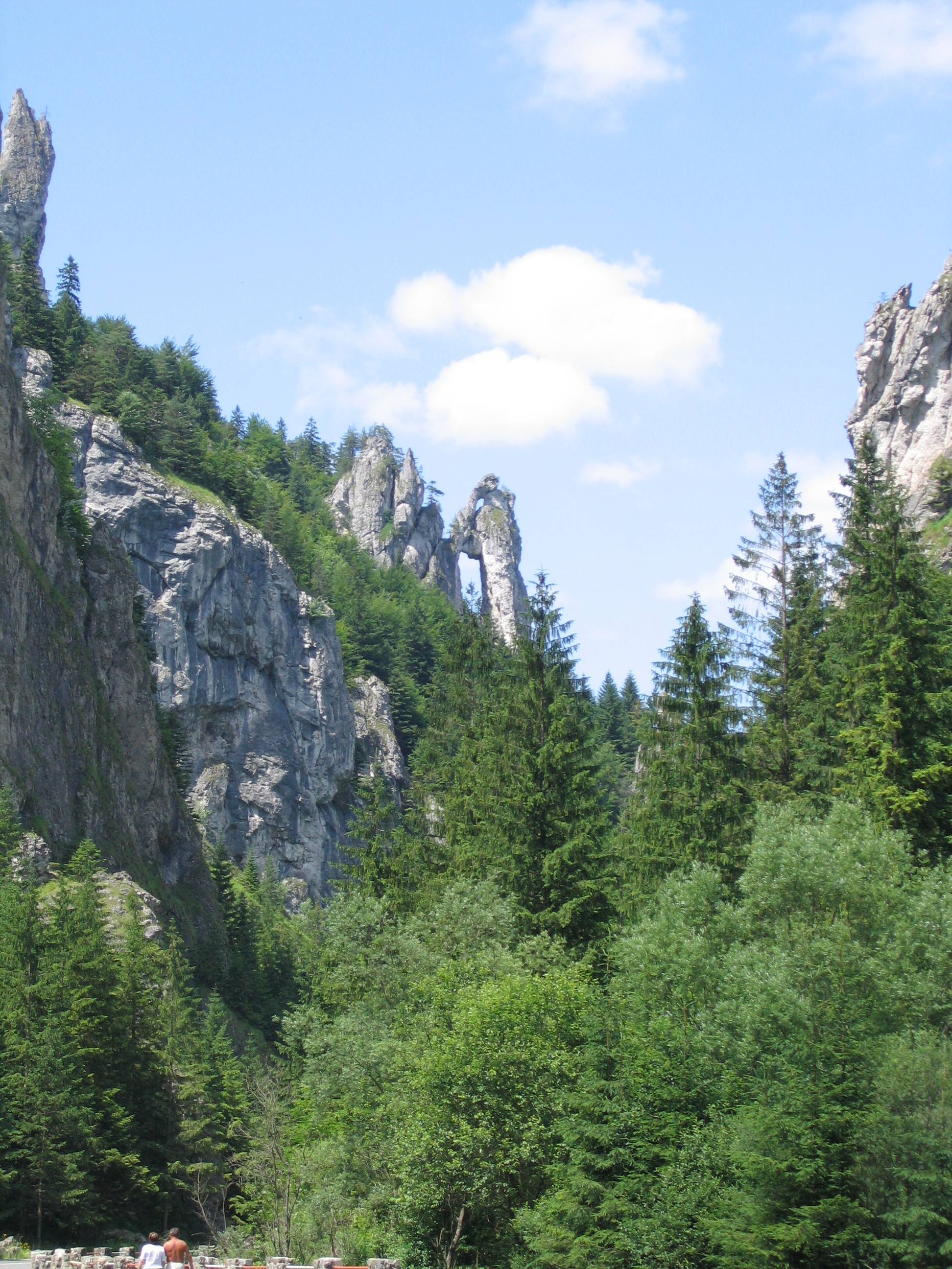 Malá Fatra rock formation, in Tiesňavy reserve, Malá Fatra National Park, Slovakia. author: Juloml, july 2006